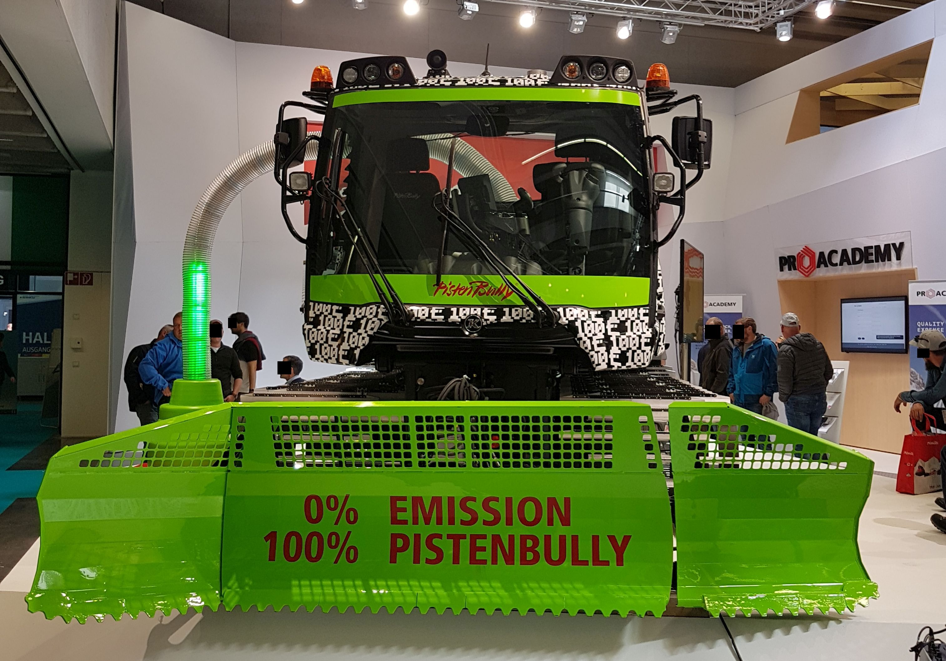 Kässbohrer PistenBully 100E at the Interalpin, exhibition in Innsbruck in Tyrol, Austria. All-electric.